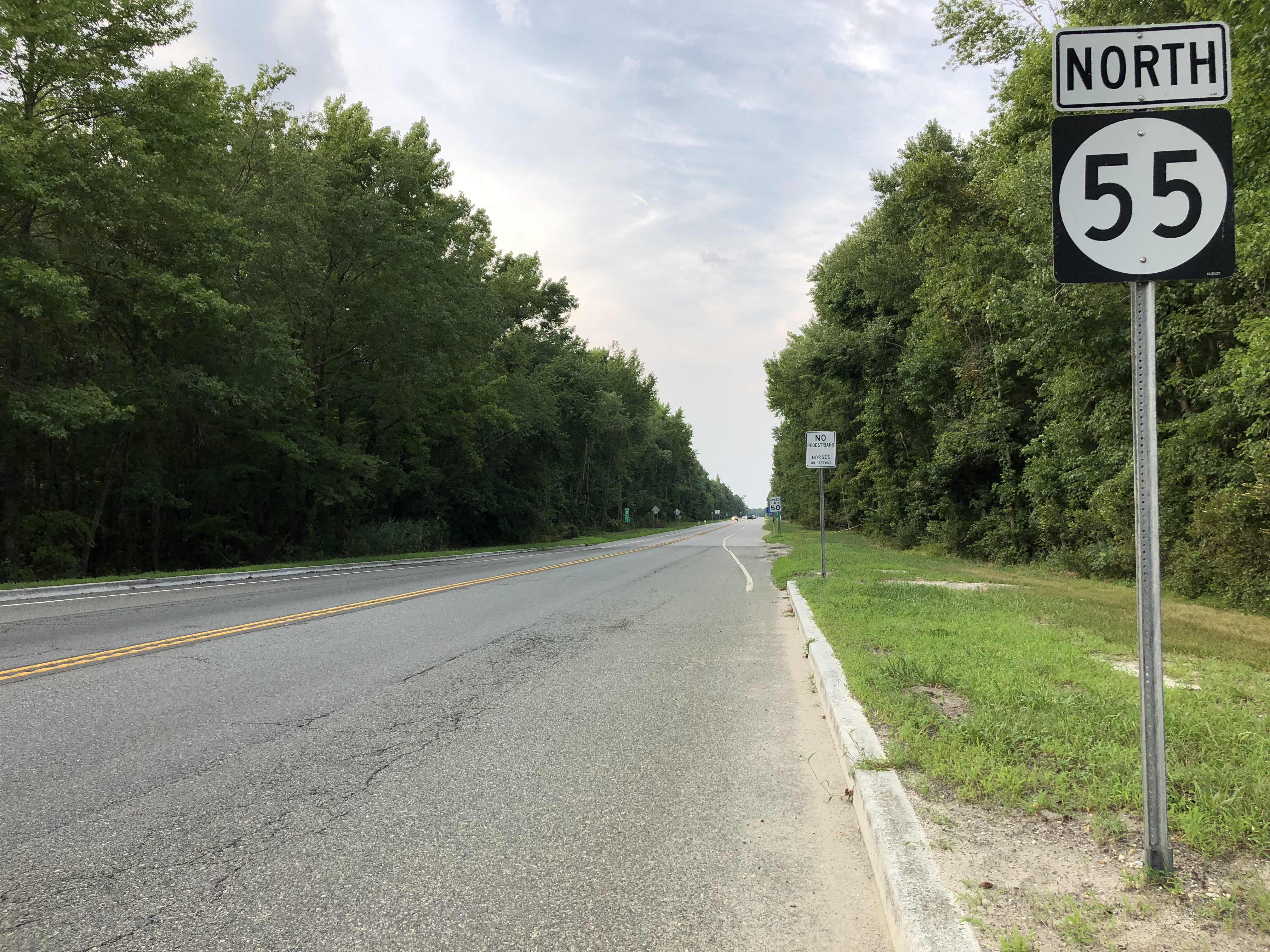 View north along New Jersey State Route 55 (Cape May Expressway) just north of New Jersey State Route 47 in Maurice River Township, Cumberland County, New Jersey